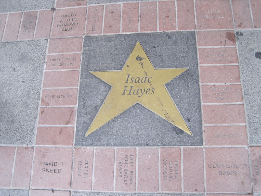 Walk of fame at the Orpheum Theater in Memphis, Tennessee. Isaac Hayes